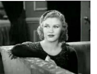 Movie screenshot of Ginger Rogers from The Thirteenth Guest